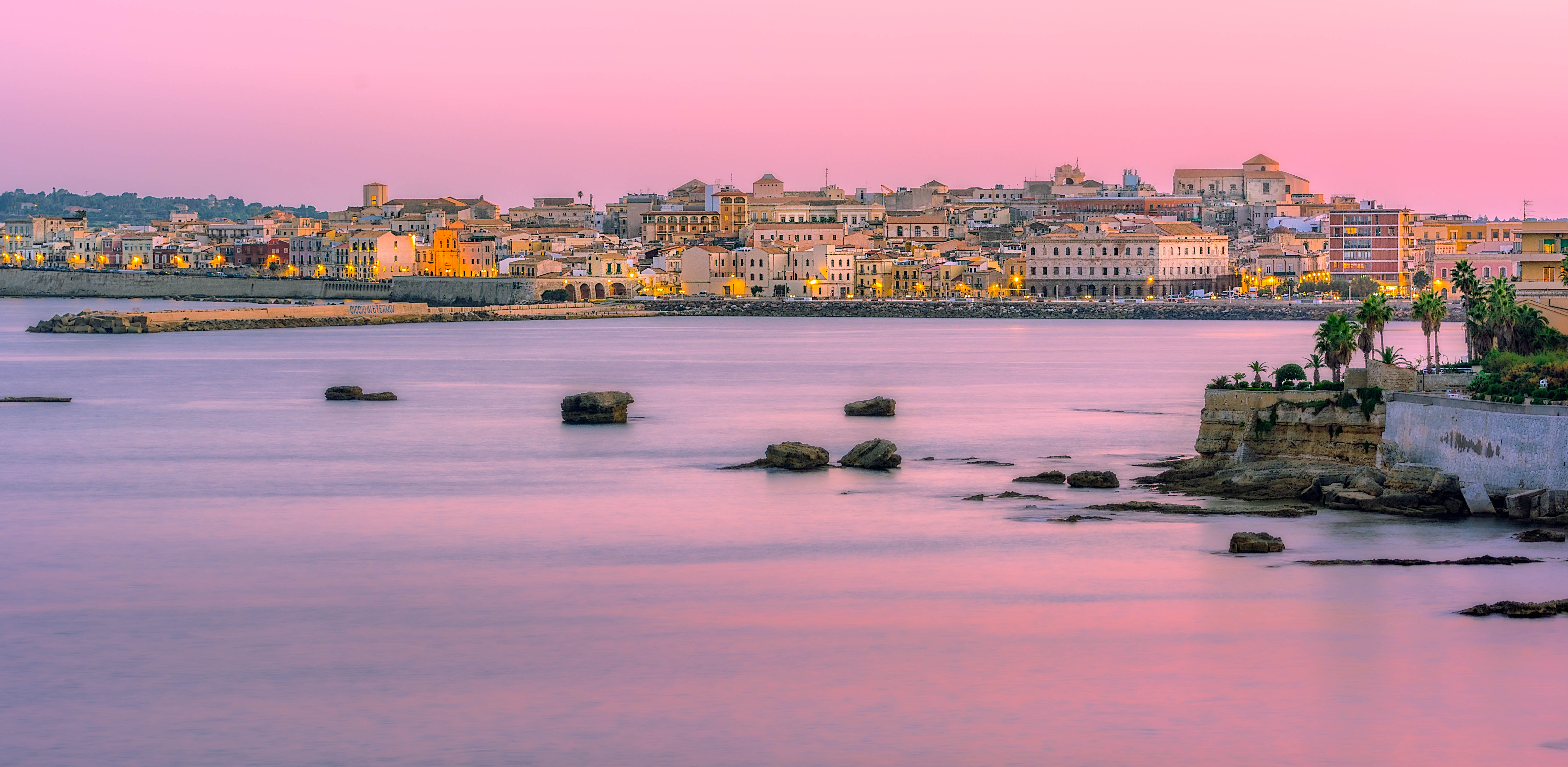 Postcard from Syracuse